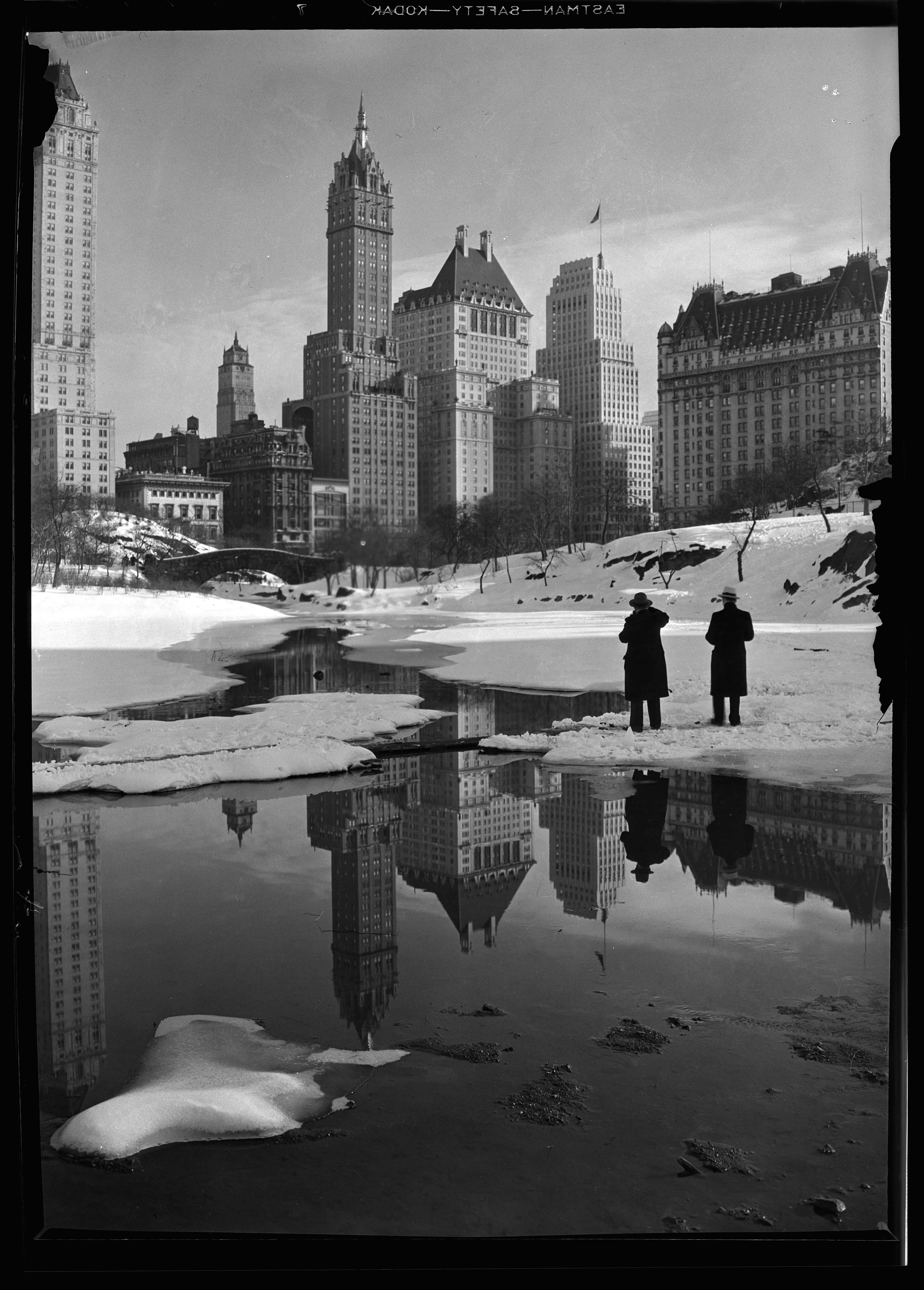 New York city views. Plaza buildings, reflected in open lake. Safety negative. 5 x 7 inches.